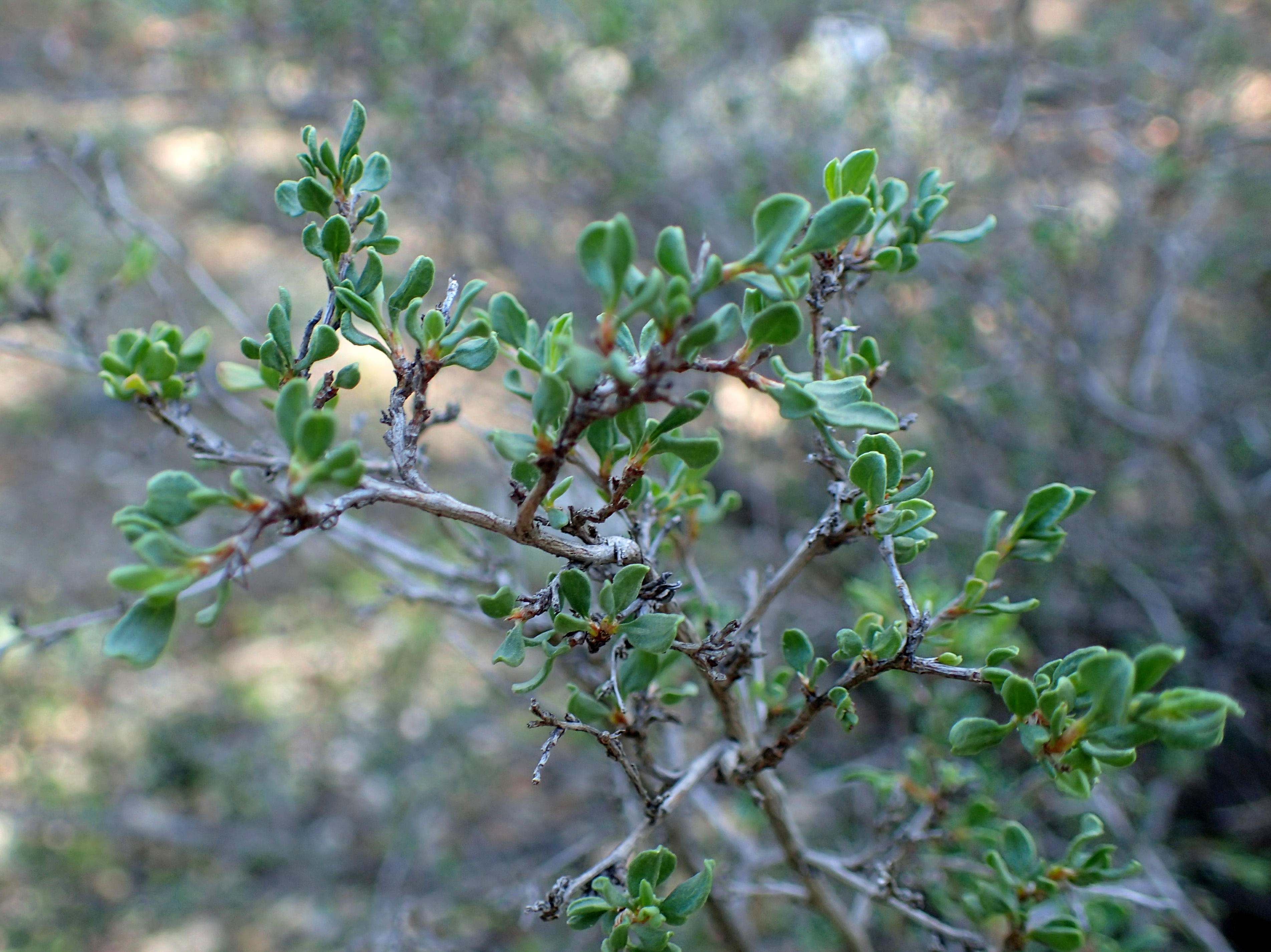 Atraphaxis spinosa in Botanical Garden in Tbilisi